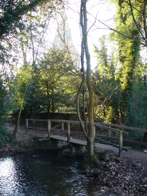 Footbridge, Shere Carrying foot traffic across the Tilling Bourne from Gomshall Lane to the parish church.